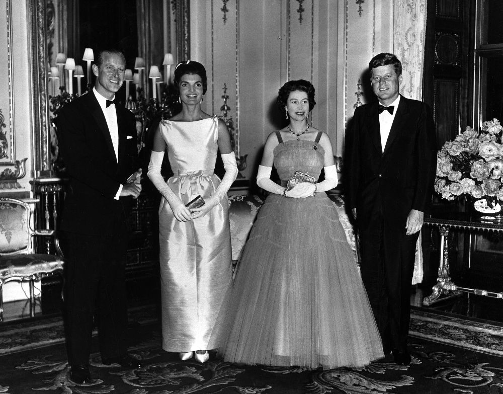 PX 96-33:17 Buckingham Palace Queen Elizabeth and Prince Philip host Queen's Dinner for President and Mrs. Kennedy. U. S. Department of State photograph in the John F. Kennedy Presidential Library and Museum, Boston.